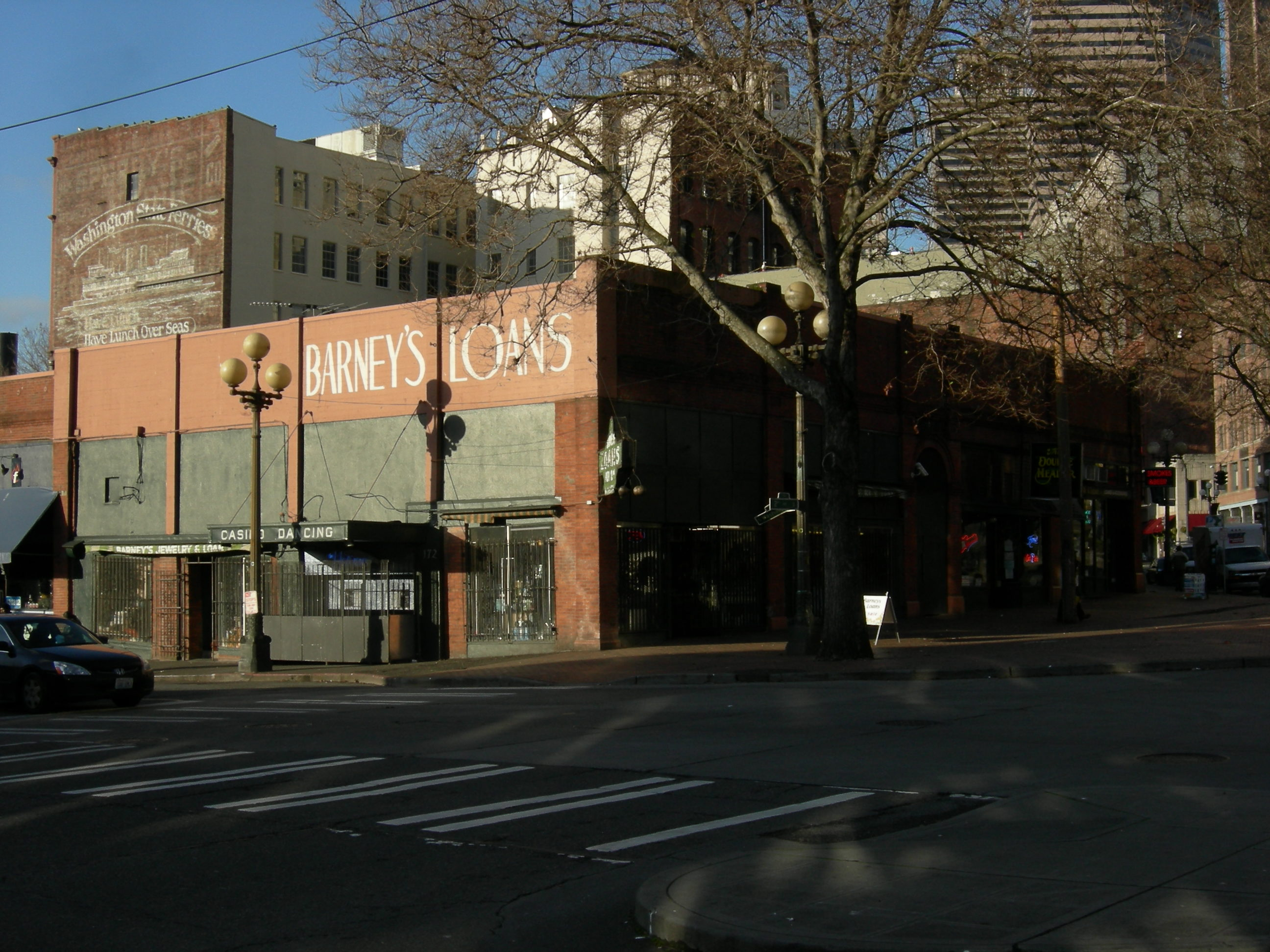 Seattle's Nugent Block and Considine Block, built as one building at the corner of 2nd Ave. S. and S. Washington Street in the Pioneer Square neighborhood of Seattle, Washington has a long and interesting history, much of which is recounted at John Considine (Seattle)#The People's Theater building, complete with footnotes leading to four references with further information.